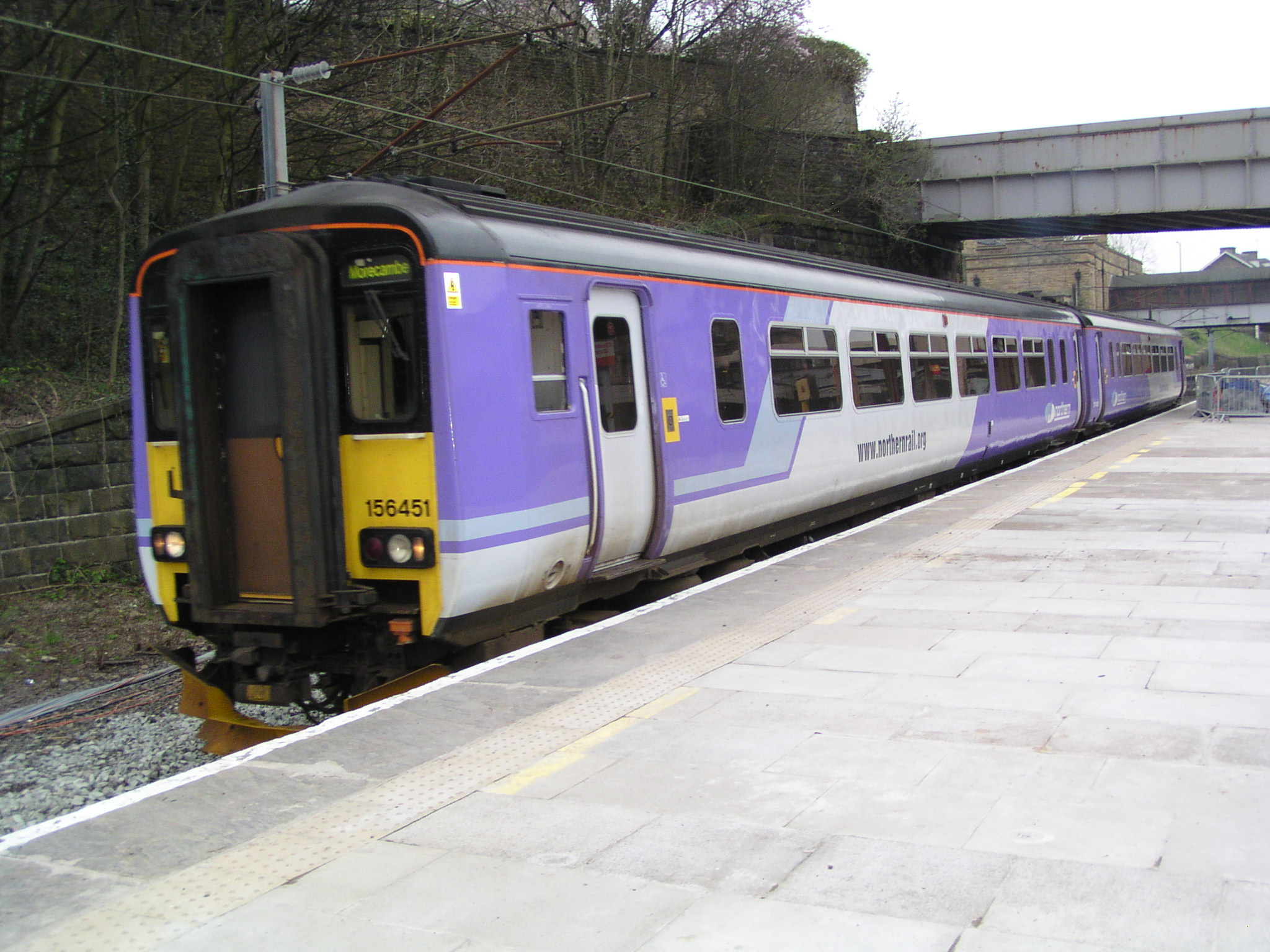 This image was copied from (Image:156451_at_Lancaster.JPG). The original description was: BR Class 156, no. 156451 at Lancaster on 1st April 2005. This unit carries the first version of Northern Rail livery, which was used for the launch of the franchise in December 2004.